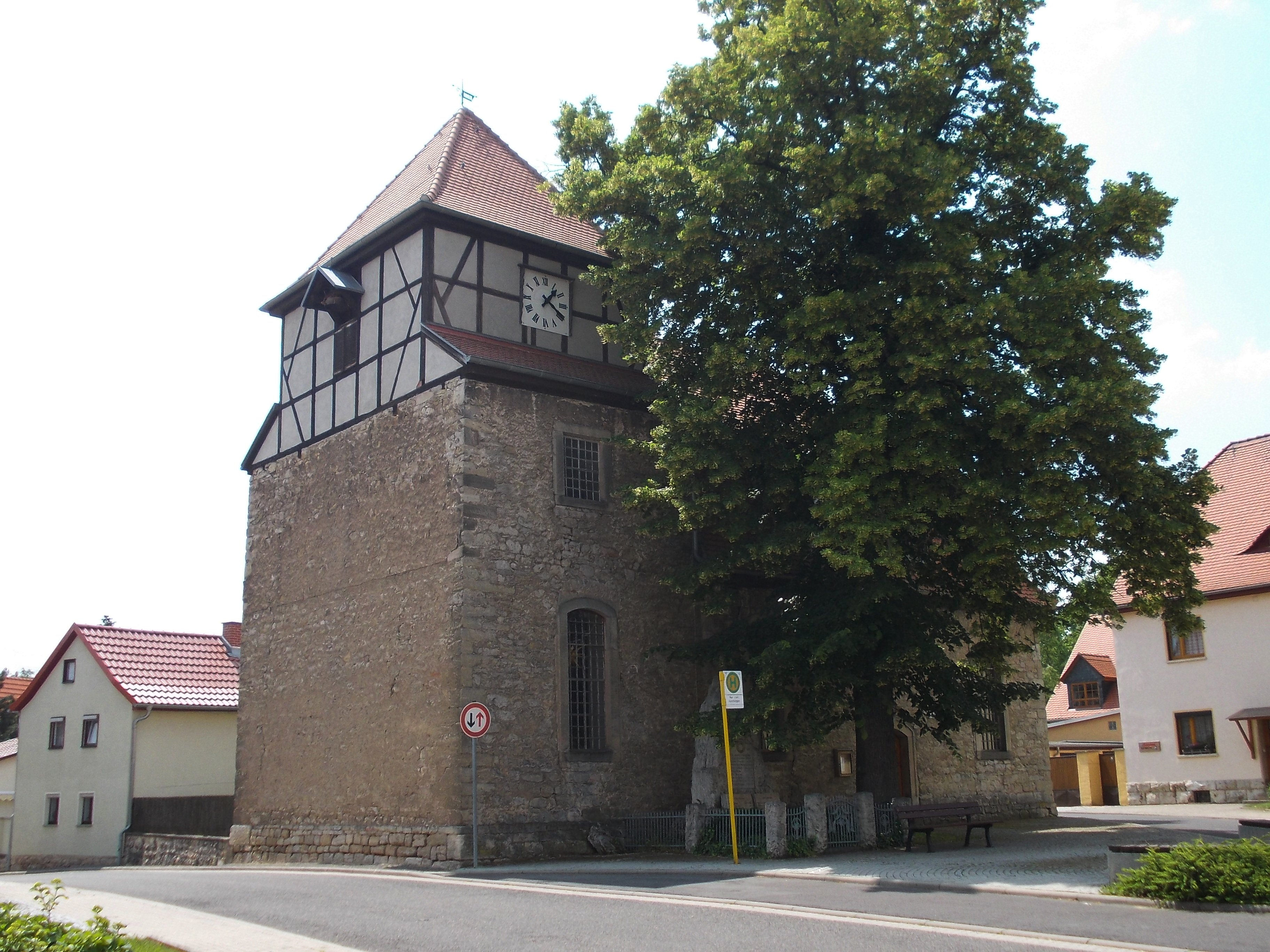 The church in Vollersroda (district: Weimarer Land, Thuringia)